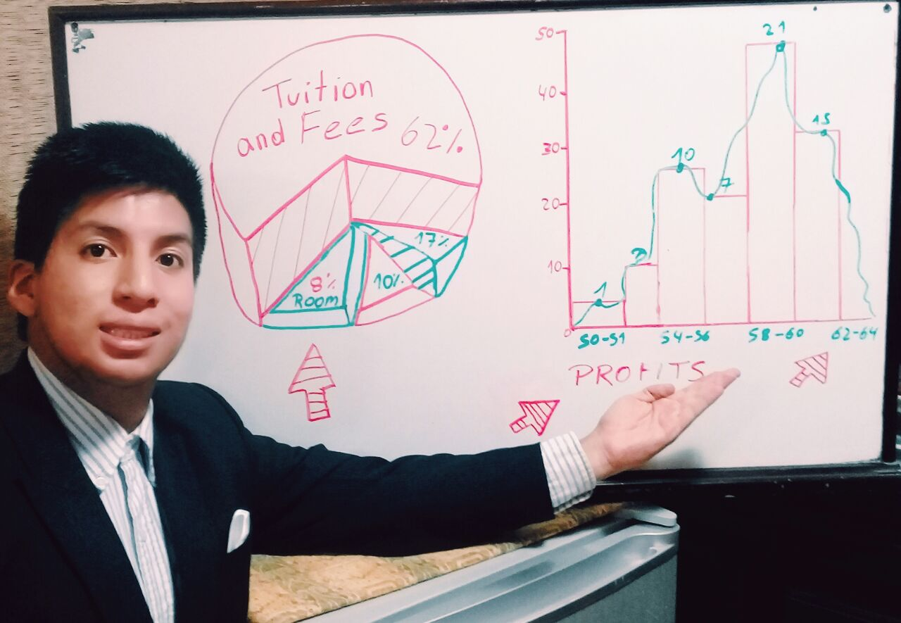 Low-context cultures are based purely on facts, statistics and other details as supporting evidence. In effect, they rely more on data than on intuition. Their presentations are characterized by containing graphs and quotes from experts in a specific area.